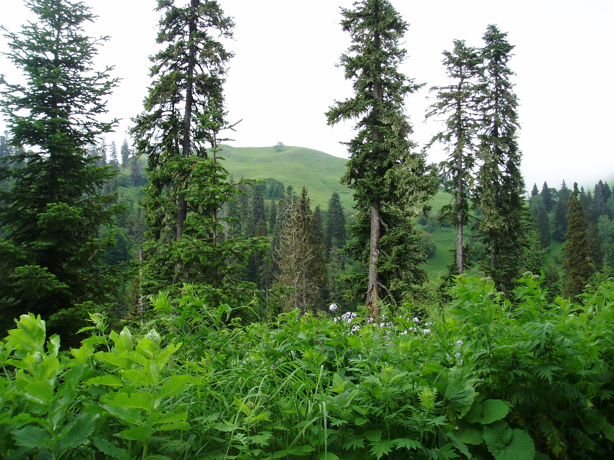 Abastumani, Georgia. Trees are Abies nordmanniana and Picea orientalis.